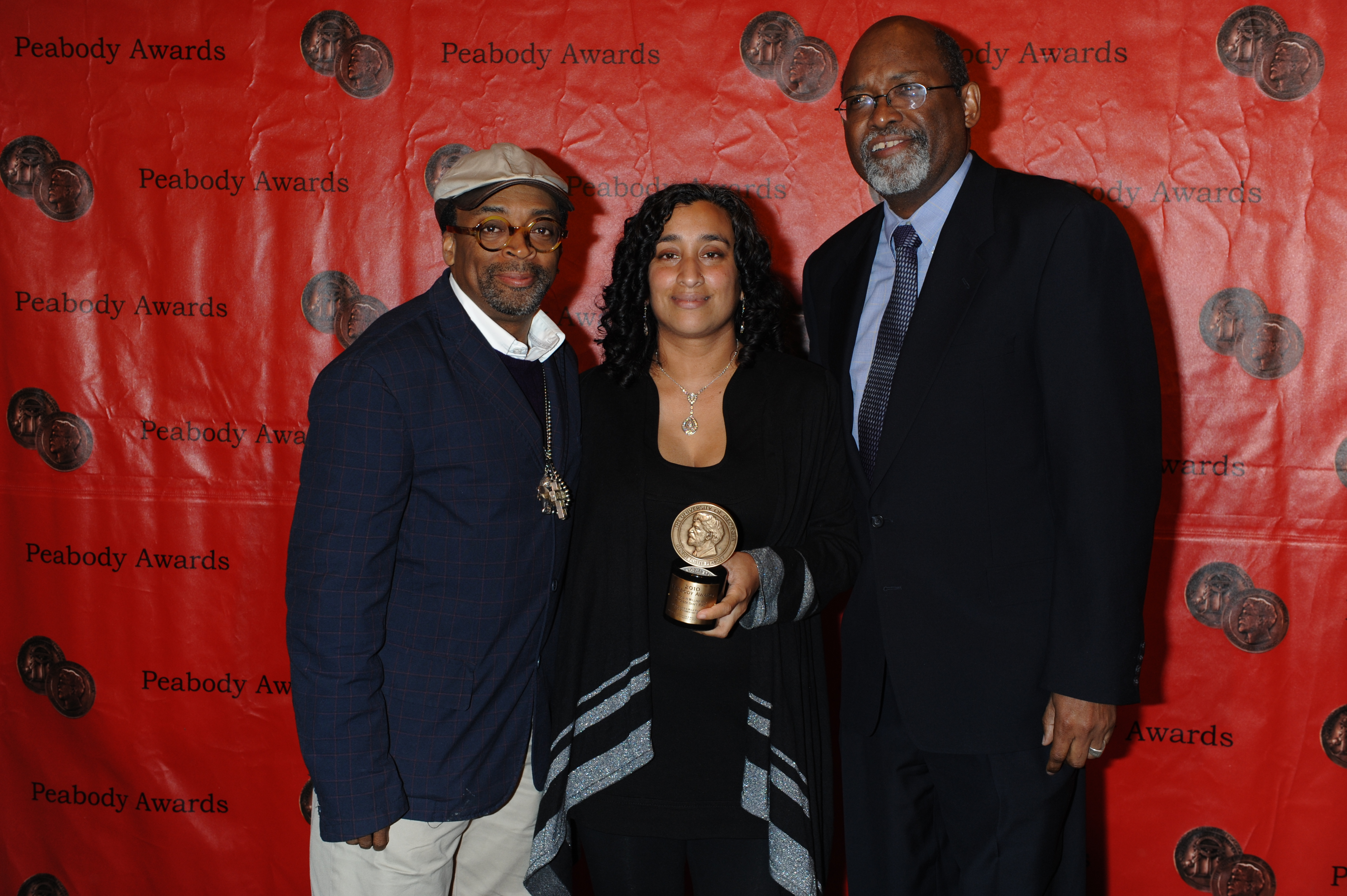 PHOTO CREDIT: ANDERS KRUSBERG / PEABODY AWARDS Spike Lee, Geeta Gandbhir and Sam Pollard for "If God is Willing and Da Creek Don't Rise" 70th Annual Peabody Awards Luncheon Waldorf=Astoria Hotel May 23, 2011